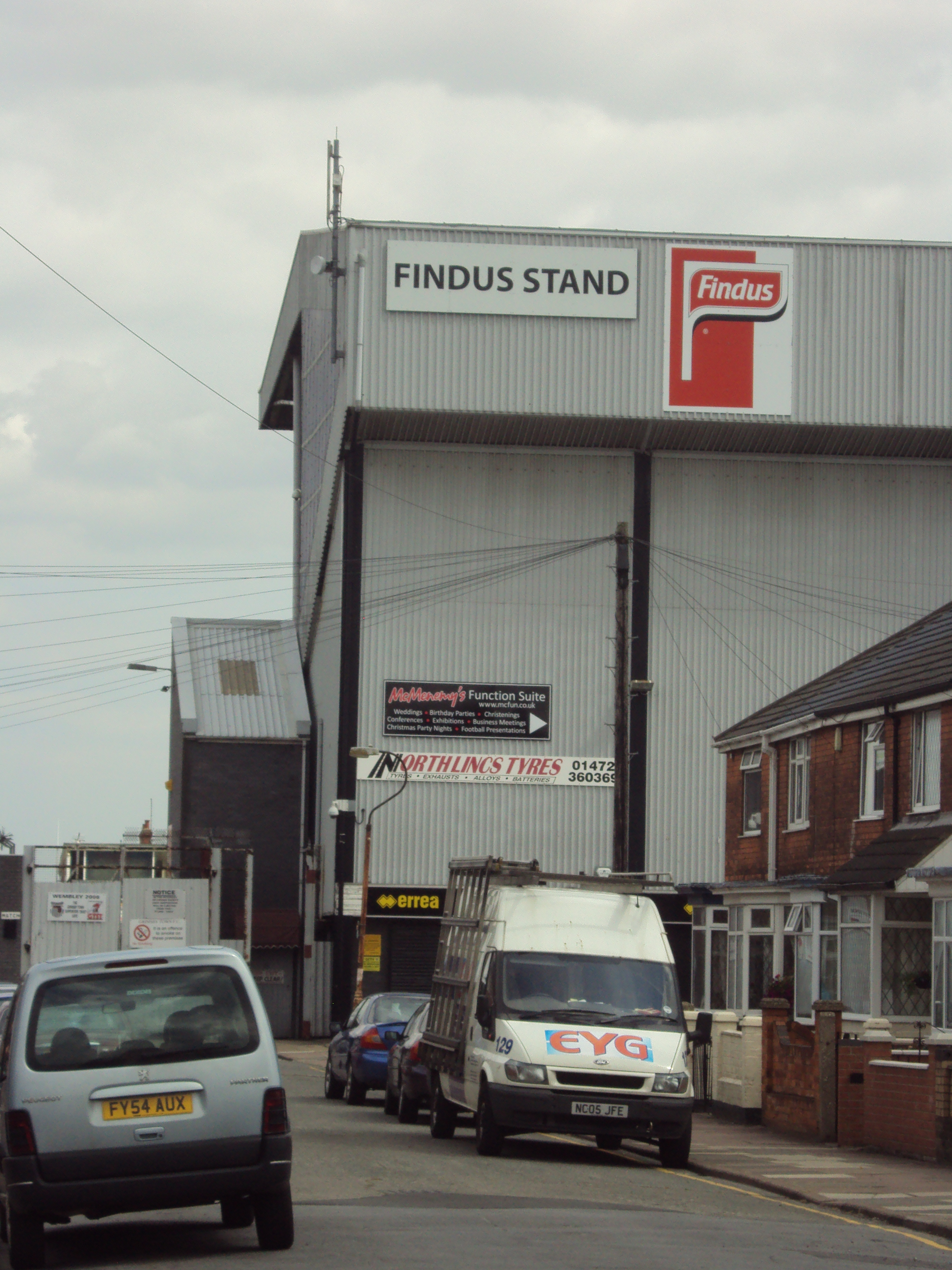 Looking down Imperial Avenue, in the background is the Findus stand of Blundell Park, Cleethorpes, Lincolnshire, England. Home to Grimsby Town FC.